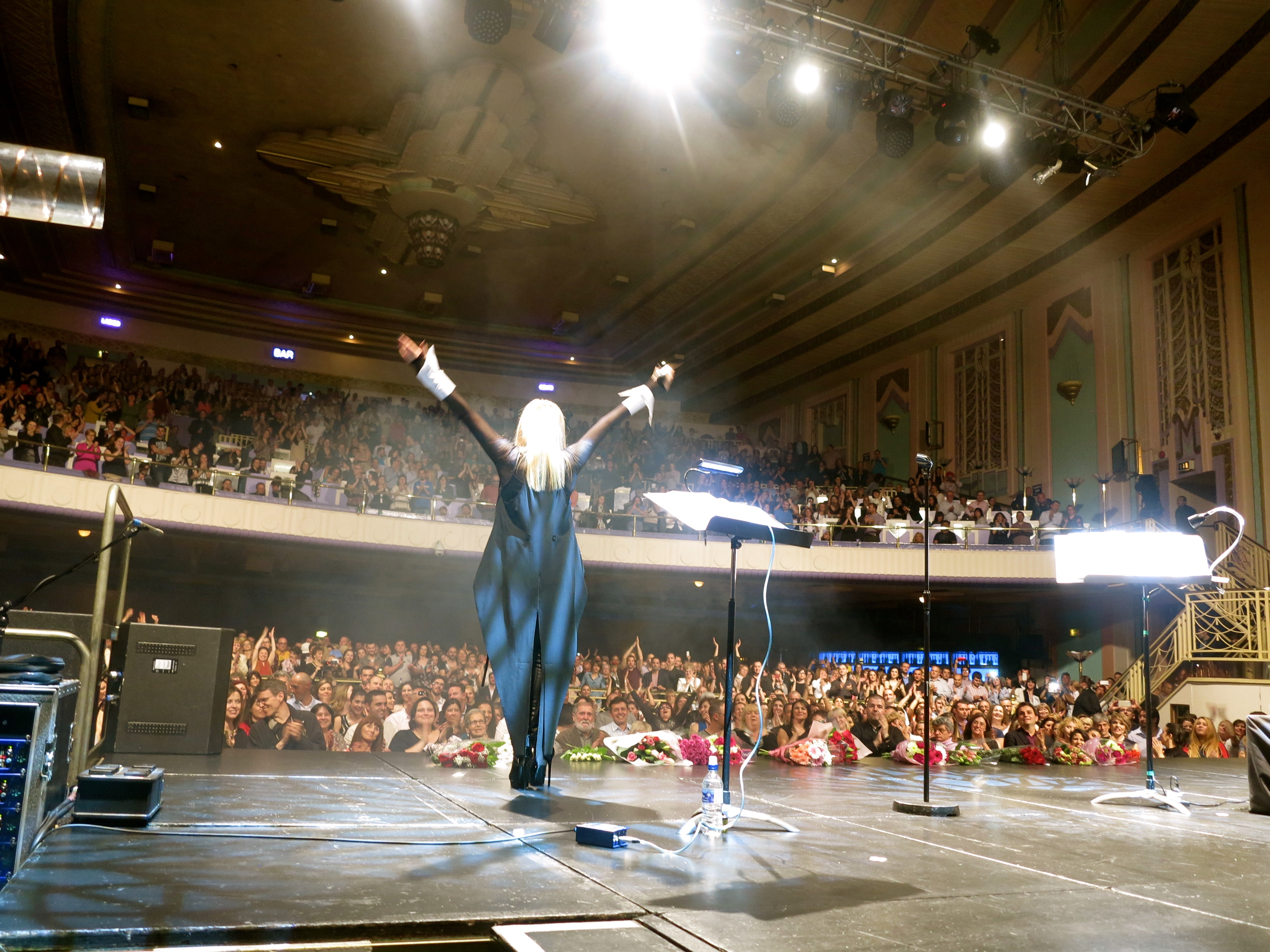 Bulgarian singer Lili Ivanova at her concert in London